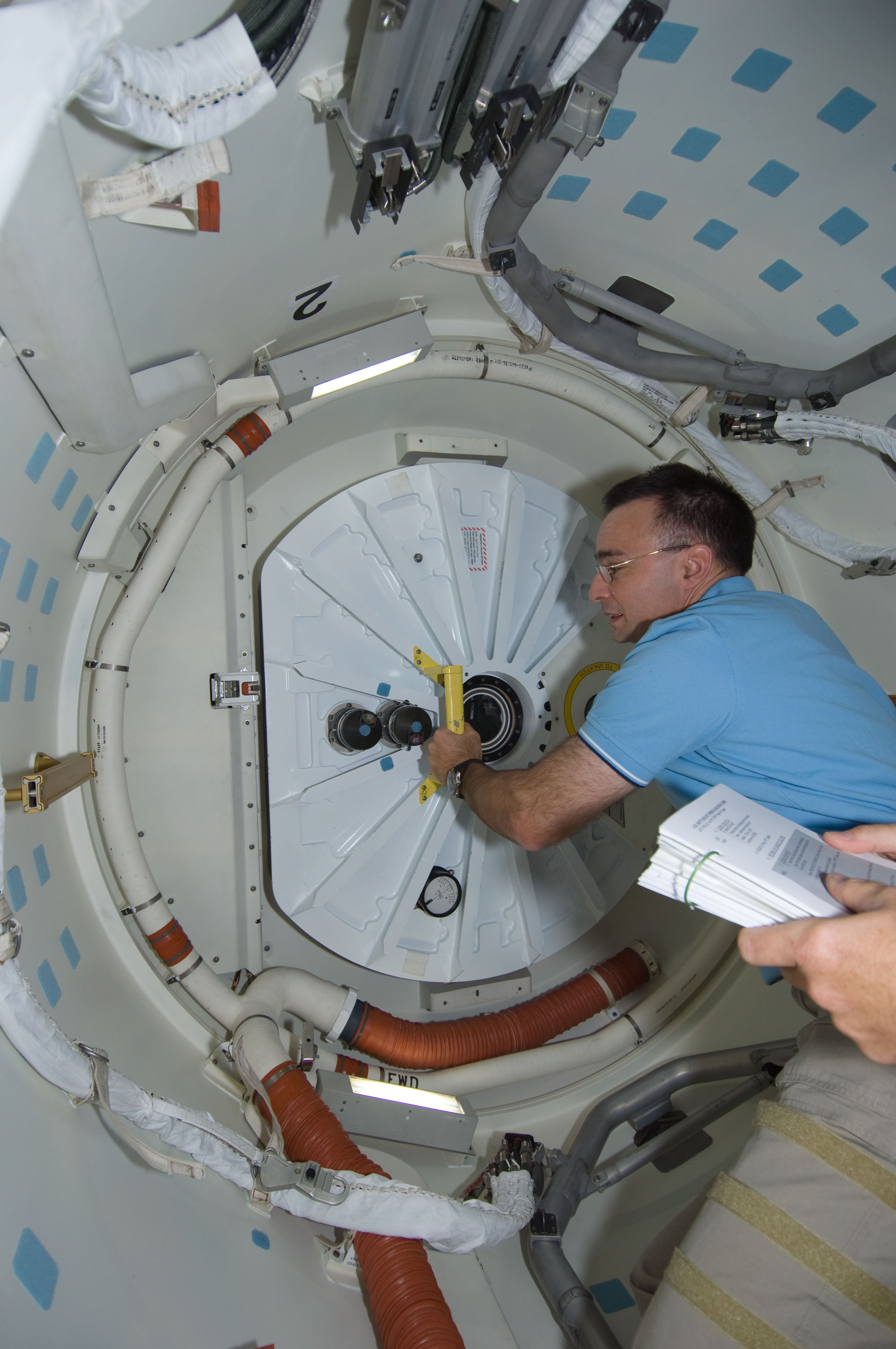 Astronaut Lee Archambault, STS-119 commander, closes the hatch on the middeck of Space Shuttle Discovery prior to undocking from the International Space Station to conclude almost 10 days of cooperative work onboard the shuttle and the station. Undocking of the two spacecraft occurred at 2:53 p.m. (CDT) on March 25, 2009.